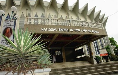 National Shrine of Our Lady of Fatima, Valenzuela, PH